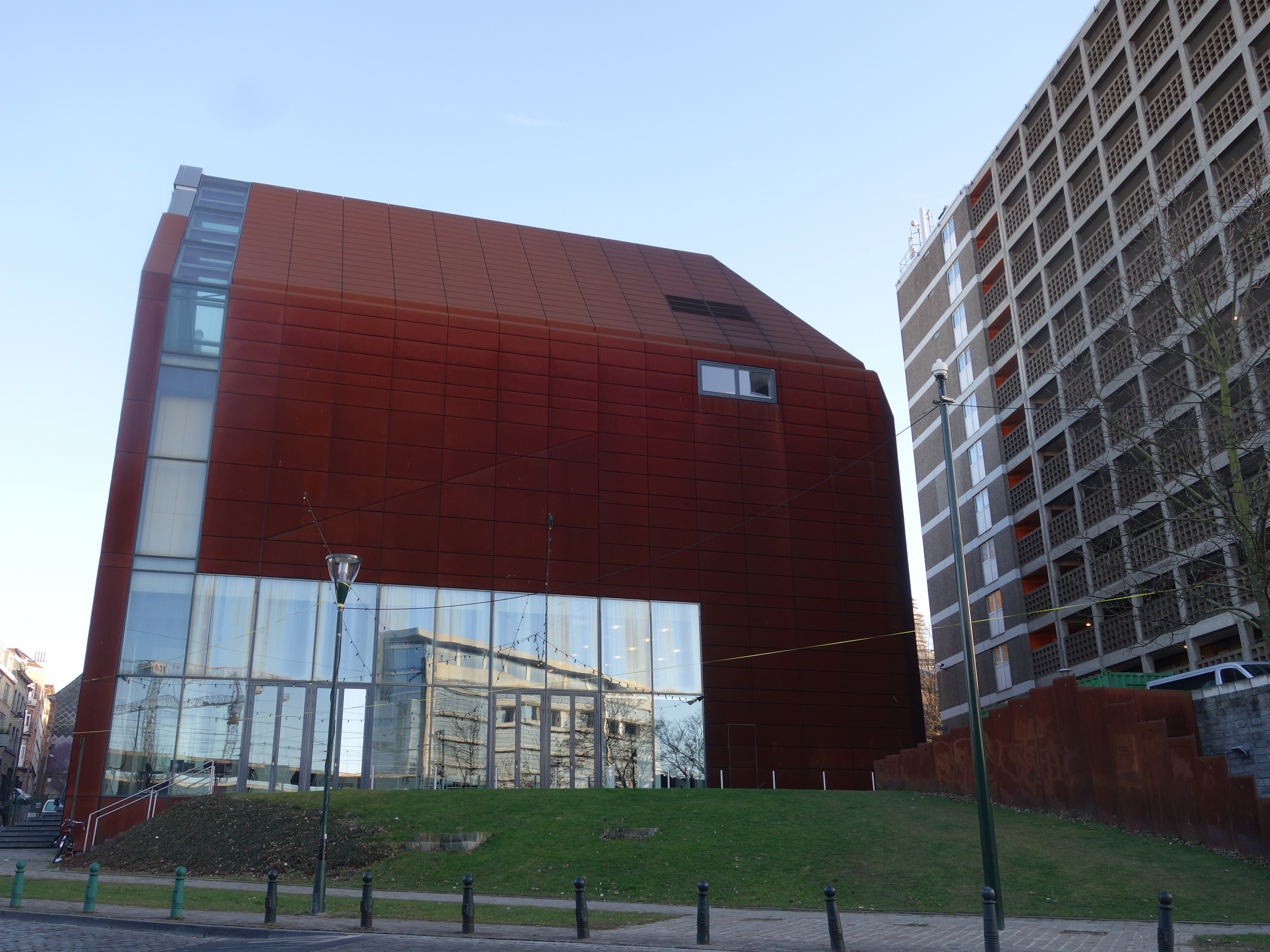 Brussels